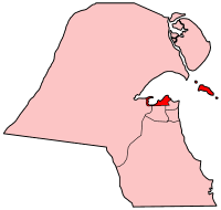 Map of Kuwait showing Al Kuwayt governorate. Made by User:Golbez.